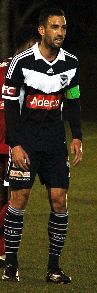 Carl Valeri playing a pre-season friendly for Melbourne Victory in 2014